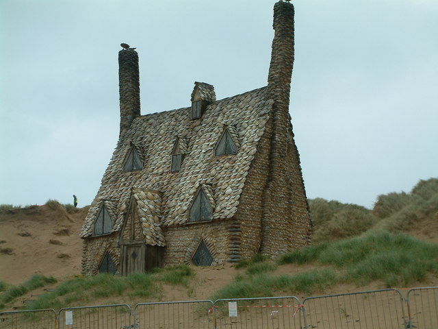 Harry Potter Shell House This house was built in the dunes at Freshwater West in order to film scenes for the latest Harry Potter film. It is clad with large scallop shells.